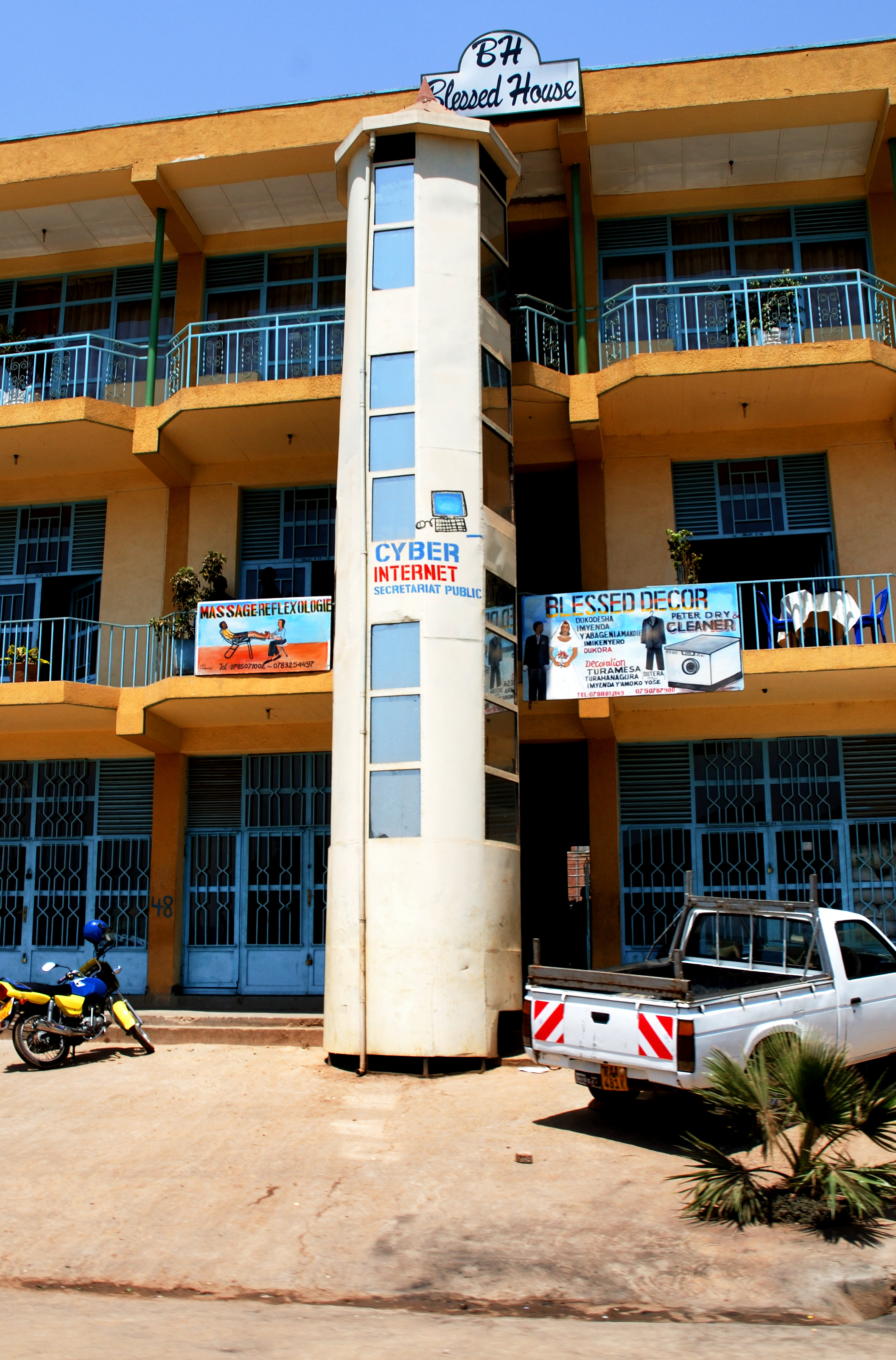 Cybercafé in the outskirts of Kigali, Rwanda